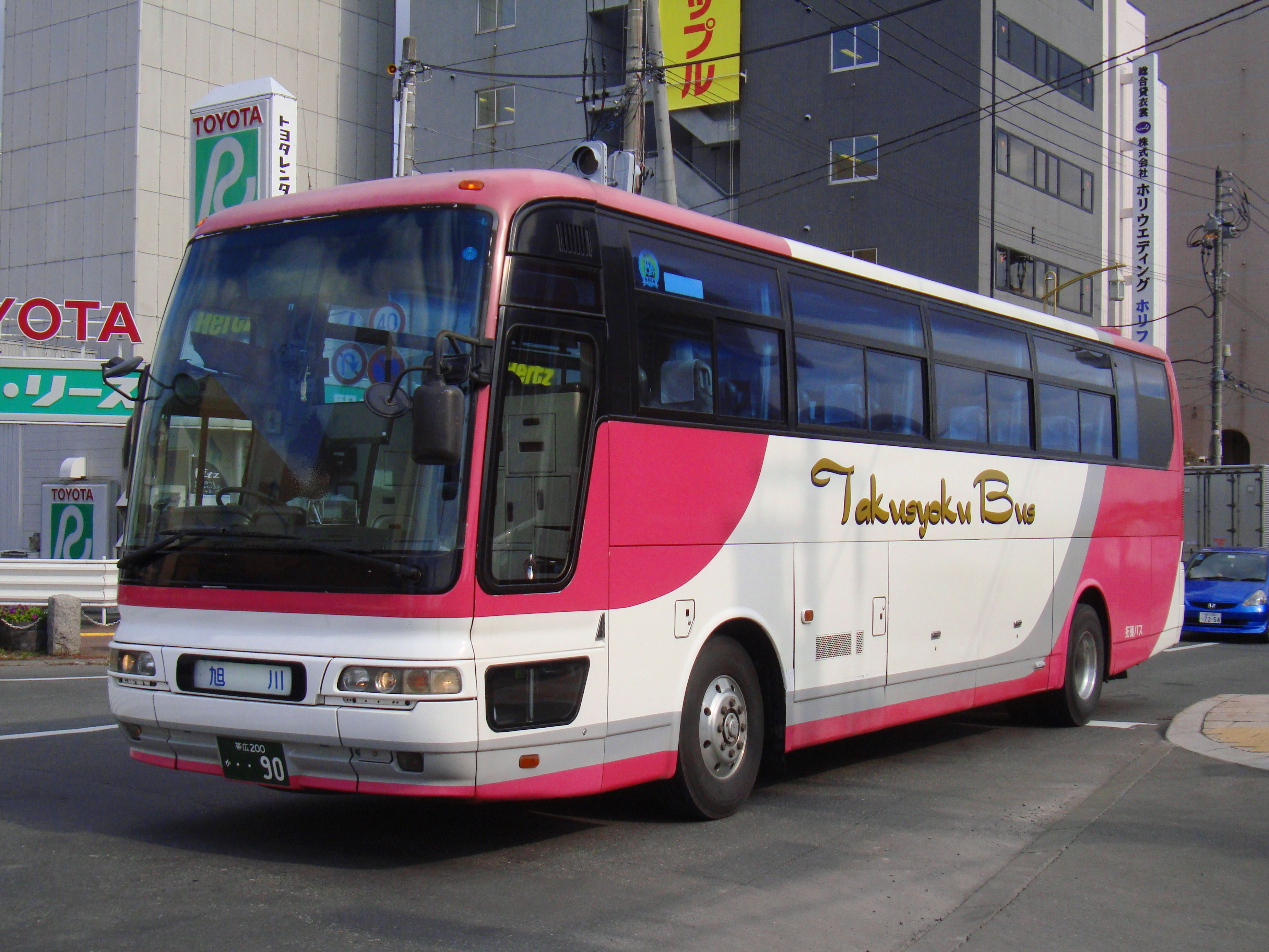 "North Liner" Obihiro to Asahikawa